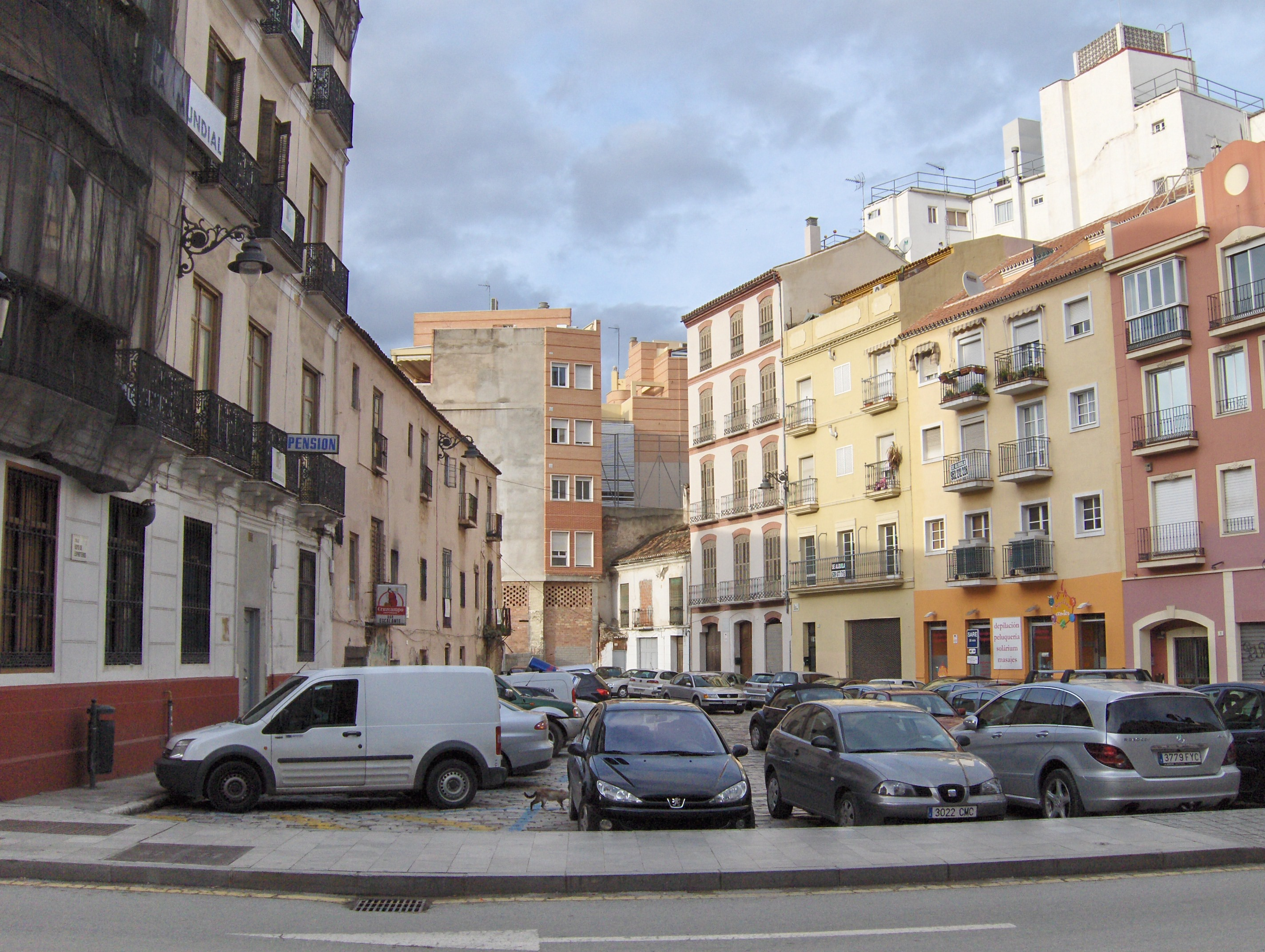 Hoyo de Esparteros, Málaga.